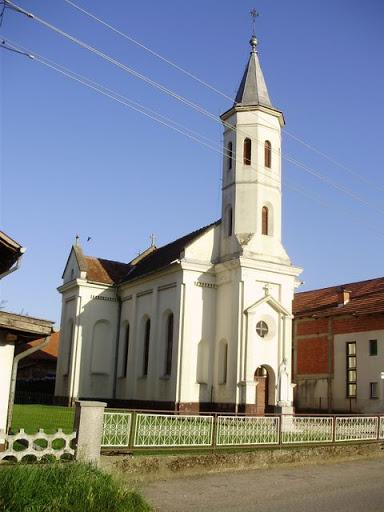 Church in Croatia